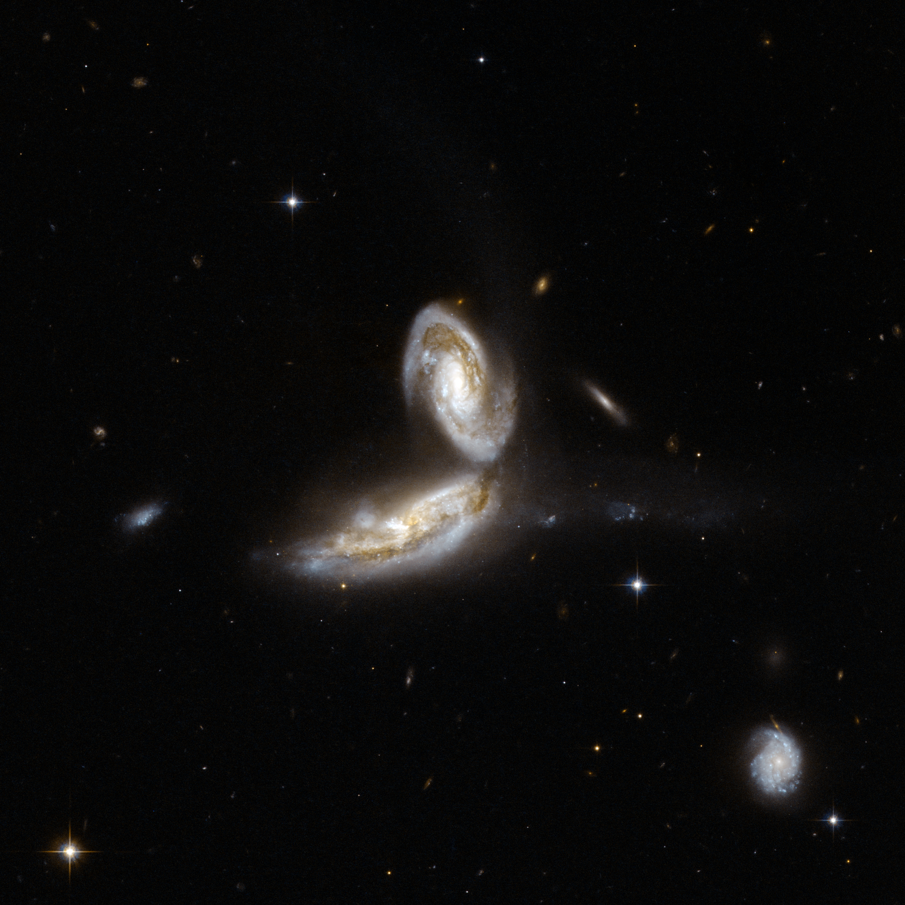 NGC 5331 is a pair of interacting galaxies beginning to hold their arms . There is a blue trail which appears in the image flowing to the right of the system. NGC 5331 is very bright in the infrared, with about a hundred billion times the luminosity of the Sun. It is located in the constellation Virgo, the Maiden, about 450 million light-years away from Earth. This image is part of a large collection of 59 images of merging galaxies taken by the Hubble Space Telescope and released on the occasion of its 18th anniversary on 24th April 2008. About the objectObject nameNGC 5331, VV 253, KPG 401Object descriptionInteracting GalaxiesPosition (J2000)13 52 16.39 +02 06 15.0ConstellationVirgoDistance450 million light-years (150 million parsecs)About the dataData descriptionThe Hubble image was created using HST data from proposal 10592: A. Evans (University of Virginia, Charlottesville/NRAO/Stony Brook University)InstrumentACS/WFCExposure date(s)December 22, 2001Exposure time33 minutesFiltersF435W (B) and F814W (I)